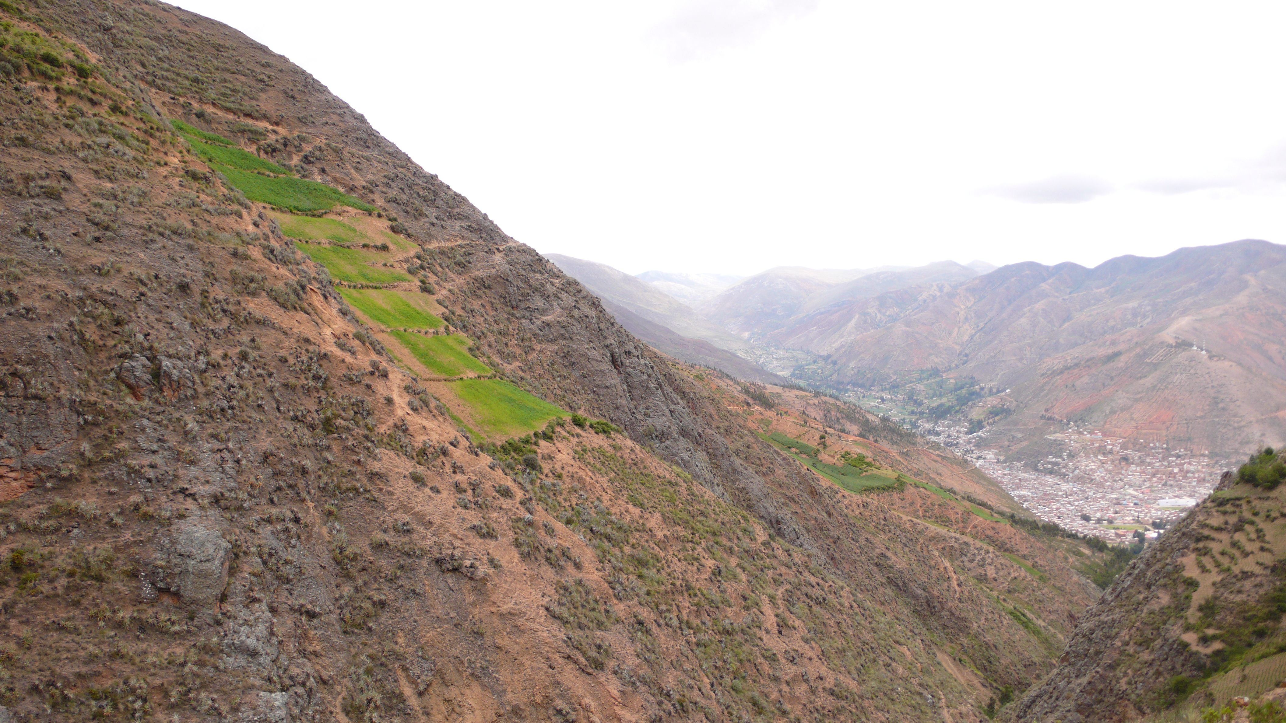 Agricultural use of steep slope near Tarma, Peru.